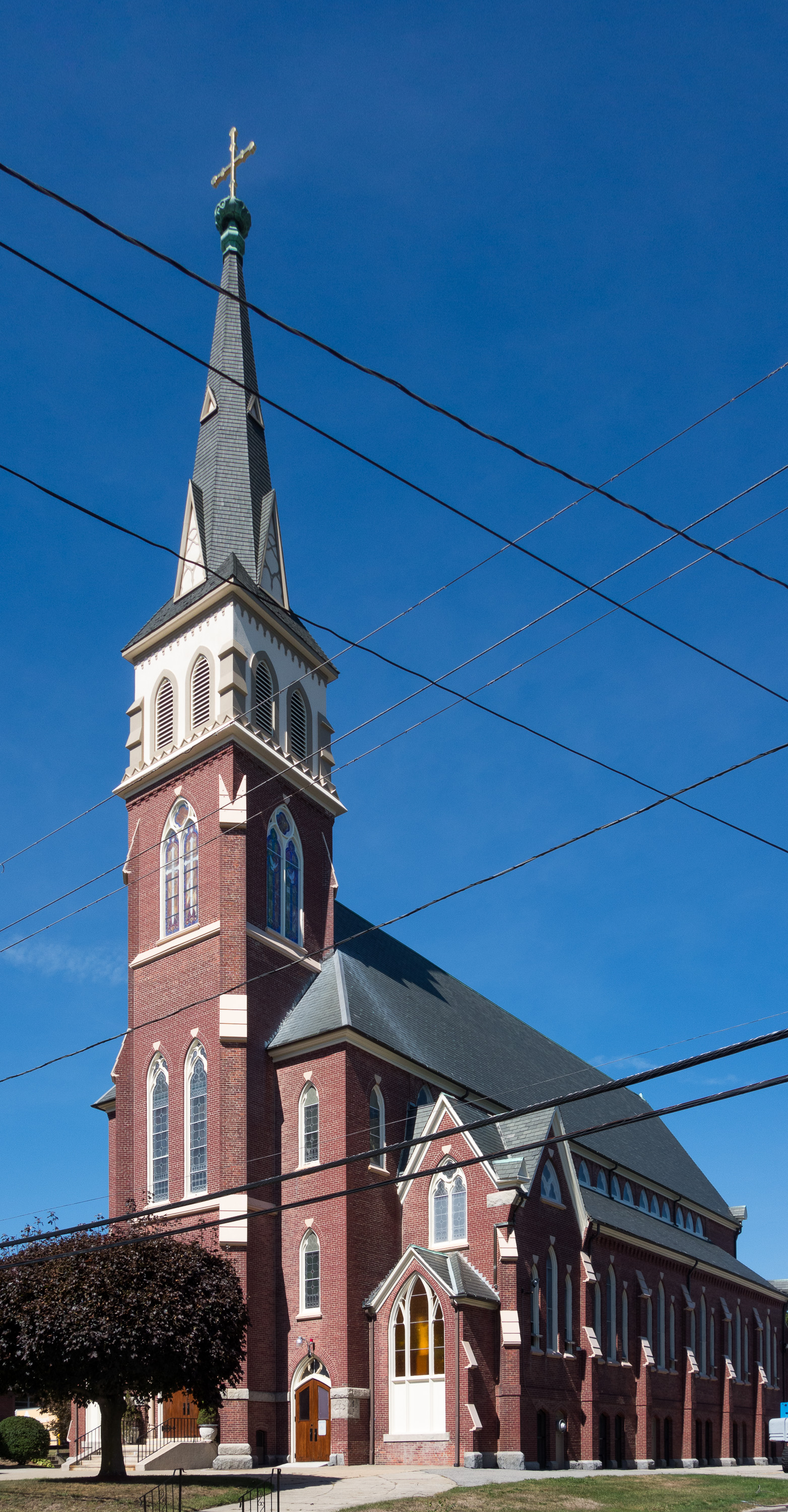 St. Edward's Catholic Church, 997 Branch Avenue, Providence, RI